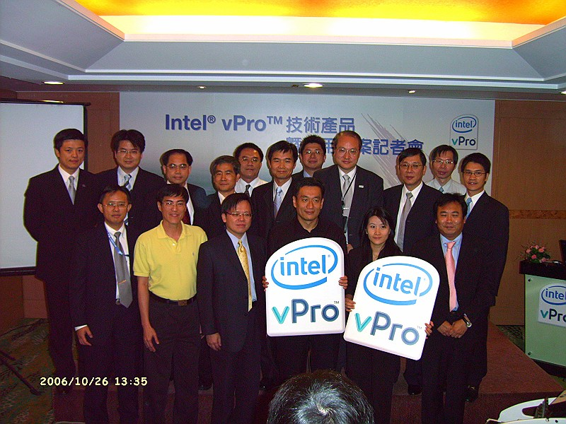 Intel invited ISVs and IHVs participating the vPro Enterprise Solution Seminar and Press Conference.